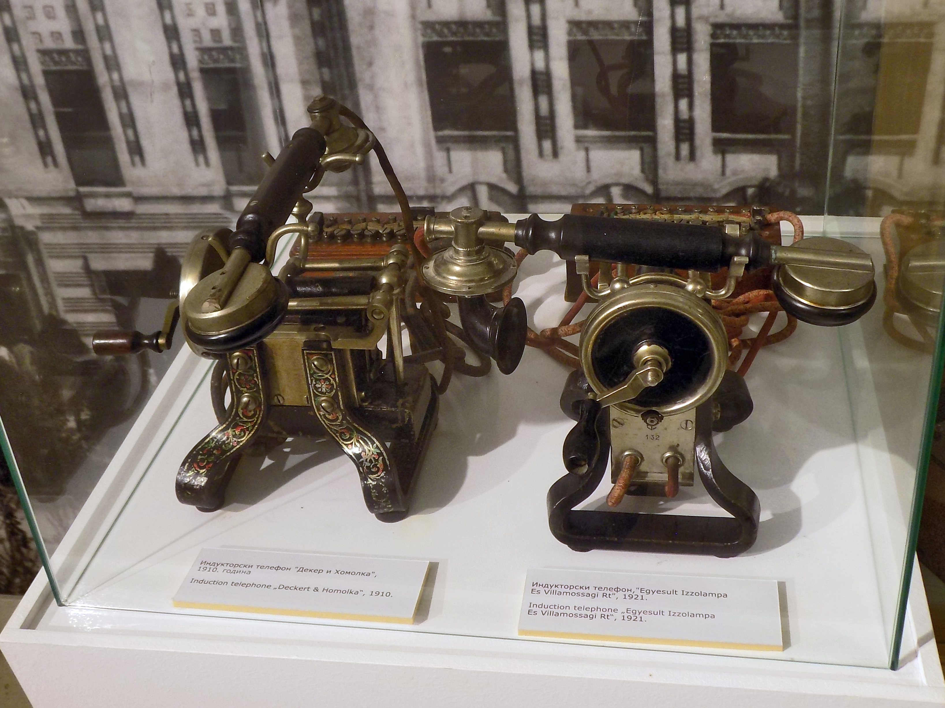 Induction telephones "Deckert & Homolka" from 1910 (on the left) and "Egyesult Izolampa Es Villamossagi Rt", from 1921 (on the right) - PTT Museum in Belgrade, Serbia